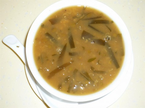 Hong Kong green bean soup